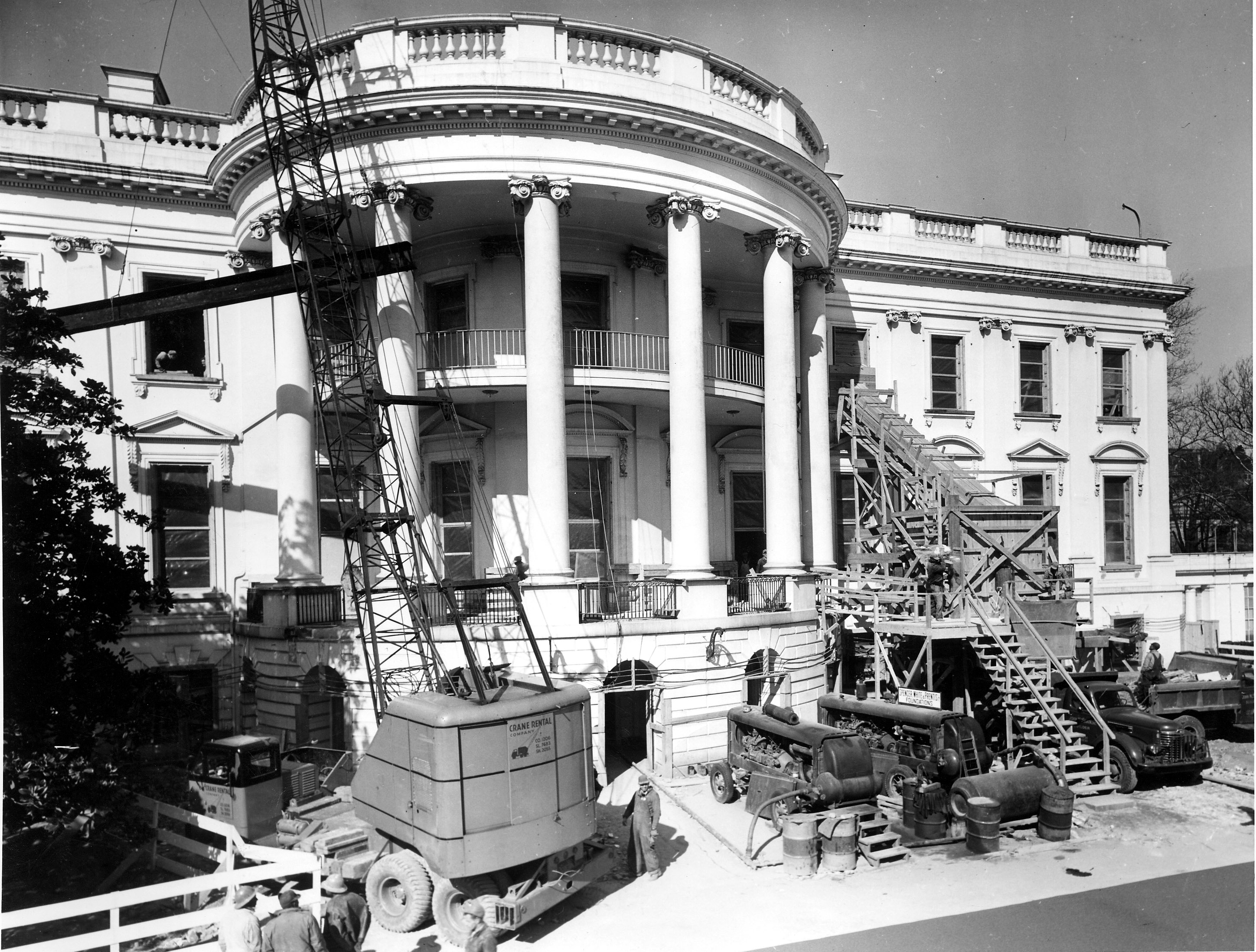 General notes: On the left, a truck crane is lifting a 40-foot beam through the southwest window of Room 20 on the second floor of the White House. On the right, debris from the hopper is being loaded on a truck.